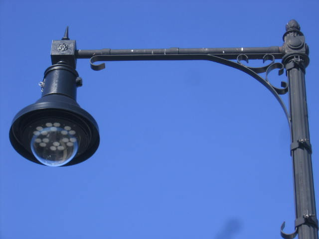 History of street lighting: KingLuminaire K805 (LED)